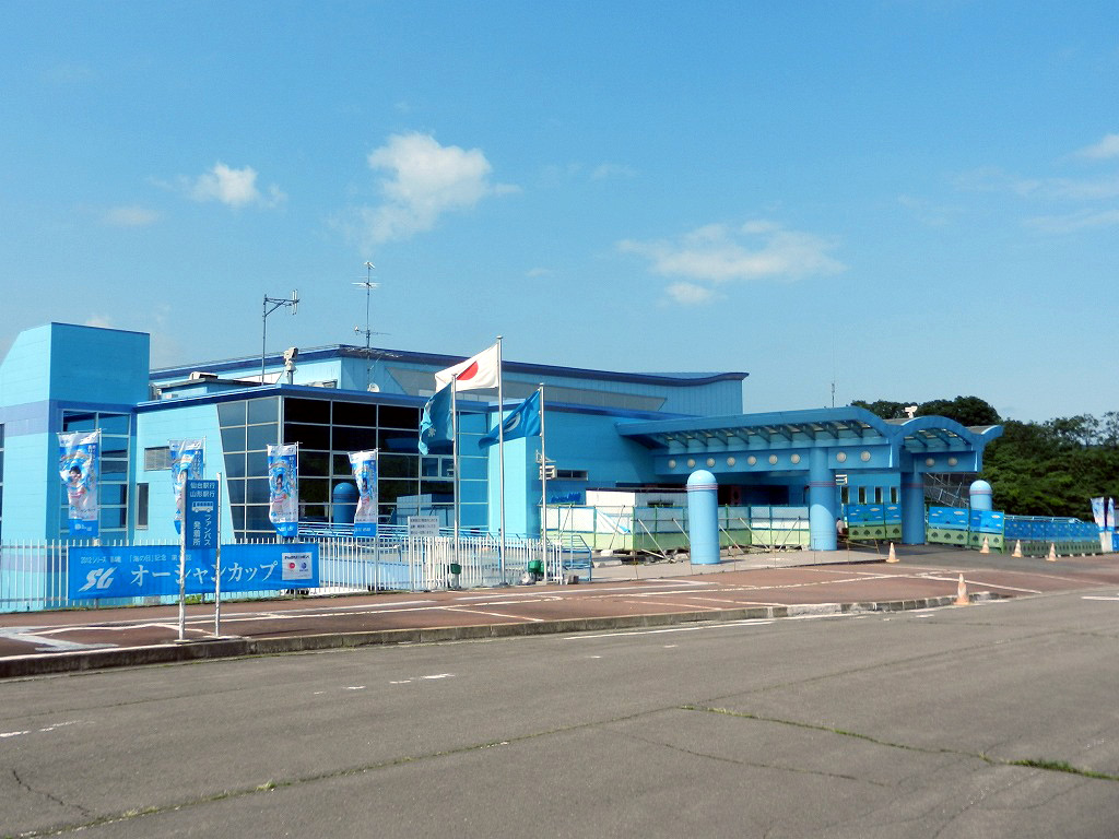 Boatpier-Kawasaki (Kawasaki Town,Miyagi,Japan)